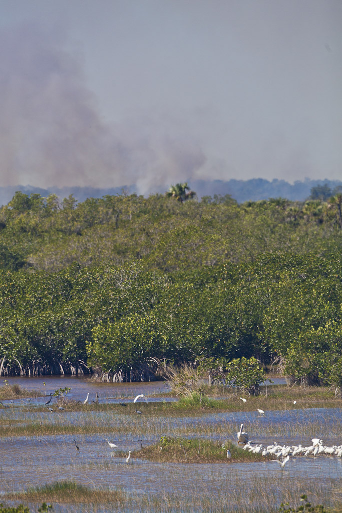 Wading birds feed as a prescribed fire on Ten Thousand Islands NWR in south Florida in early March 2012 burns in the distance. The marsh was burned to reduce the risk of wildfire to the neighboring community of Port of the Islands and to improve the habitat. It was the first prescribed burn in this area in over 10 years. Photo: Larry Richardson - USFWS